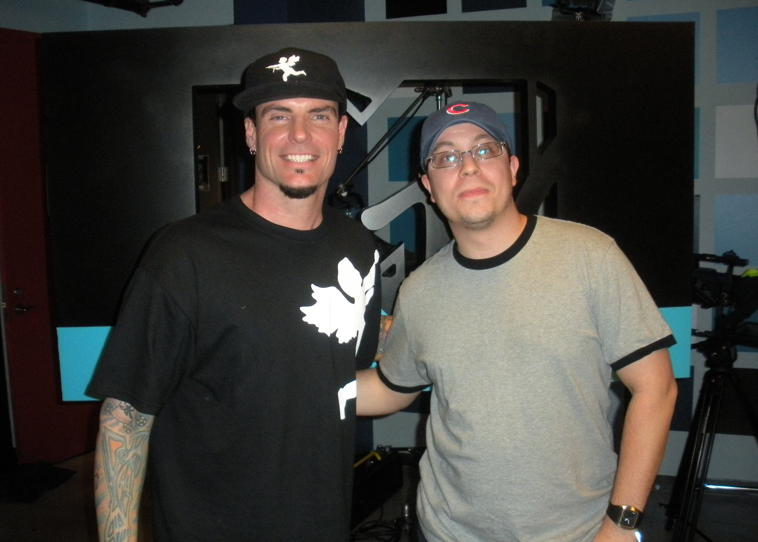 Vanilla Ice dropped by the MTV Newsroom today. He's a HUGE fan of the Gators, so he ended up hanging out by my desk to talk about this year's team. Surreal doesn't even BEGIN to describe it, folks. FACT: The first concert I ever attended was a triple bill with MC Hammer, Vanilla Ice, and En Vogue.